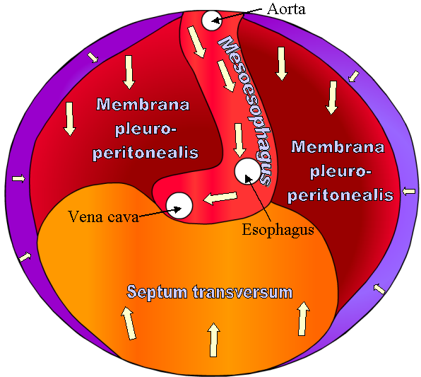 embryonic development of the diaphragm